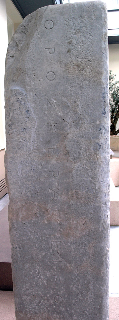 Boundary stone marking the limits of the Kerameikon in Athens, 4th century BC.